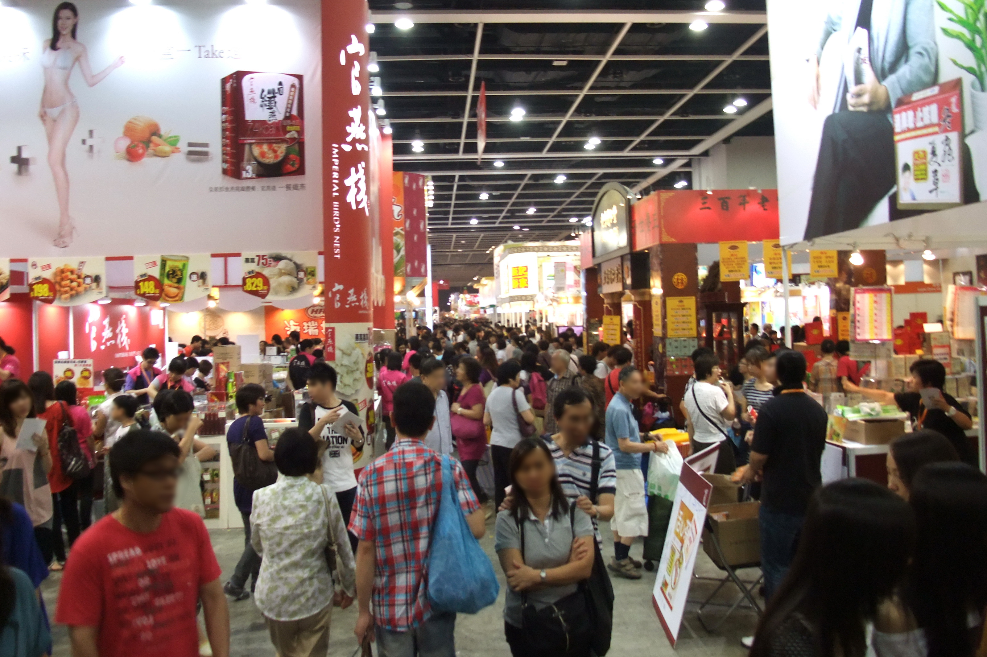 HKTDC Food Expo 2011